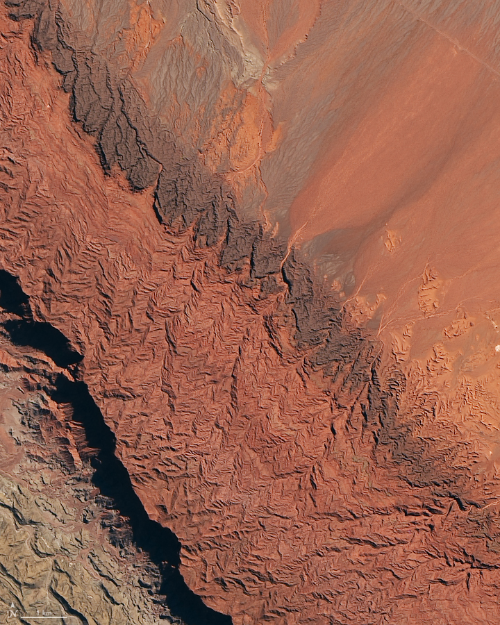 Like a South American version of Monument Valley in the United States, Talampaya Park is known for its 200-meter (660 feet) high red sandstone cliffs and 1,500-year-old rock carvings. The image below shows a close-up view of the park in La Rioja province, where the aptly named herbivorous dinosaur Riojasaurus was discovered. Talampaya stands in stark contrast to the white and multicolor sediments of the Ischigualasto Provincial Park to the south. Ischigualasto is often called the Valle de la Luna (“Valley of the Moon”) because its unique and rugged terrain give an otherworldly appearance.